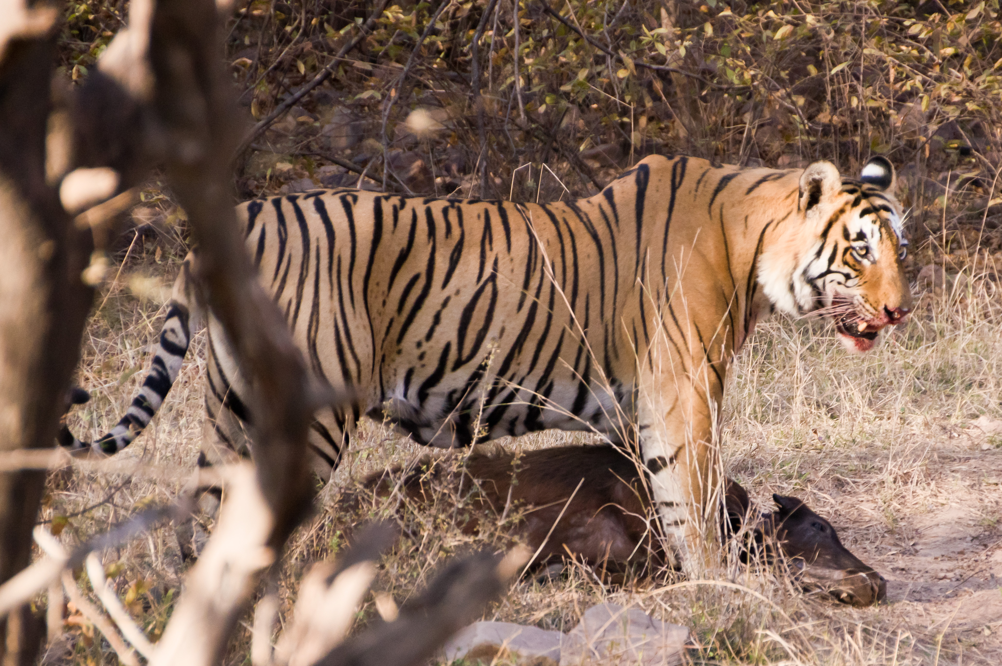 Hunting Tiger in Ranthambore